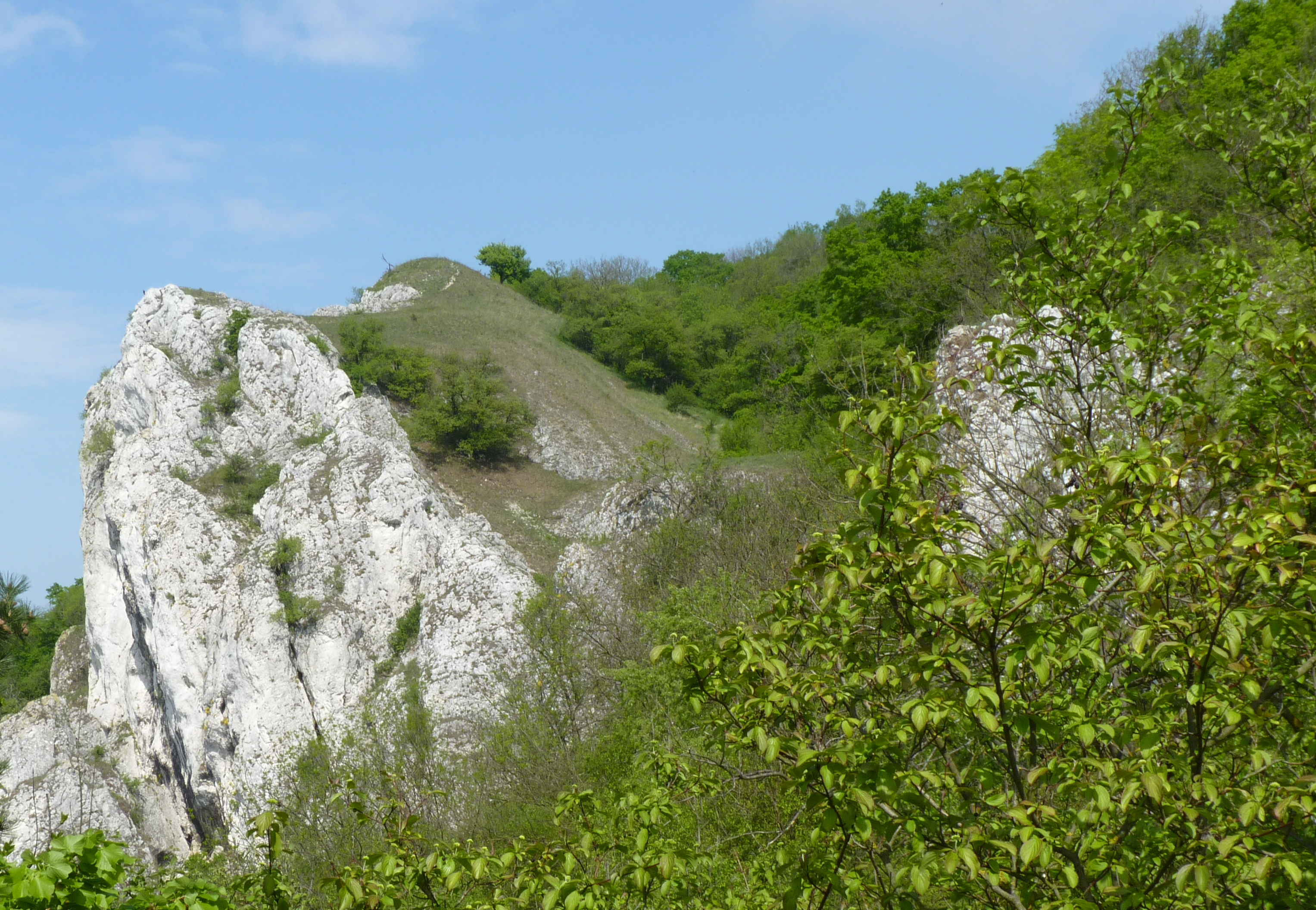 Rock where Neuhaus, and old medieval castle used to stand. Děvín - Kotel - Soutěska, national nature reserve. Palava, South Moravian Region, Czech Republic Project: Chráněná území